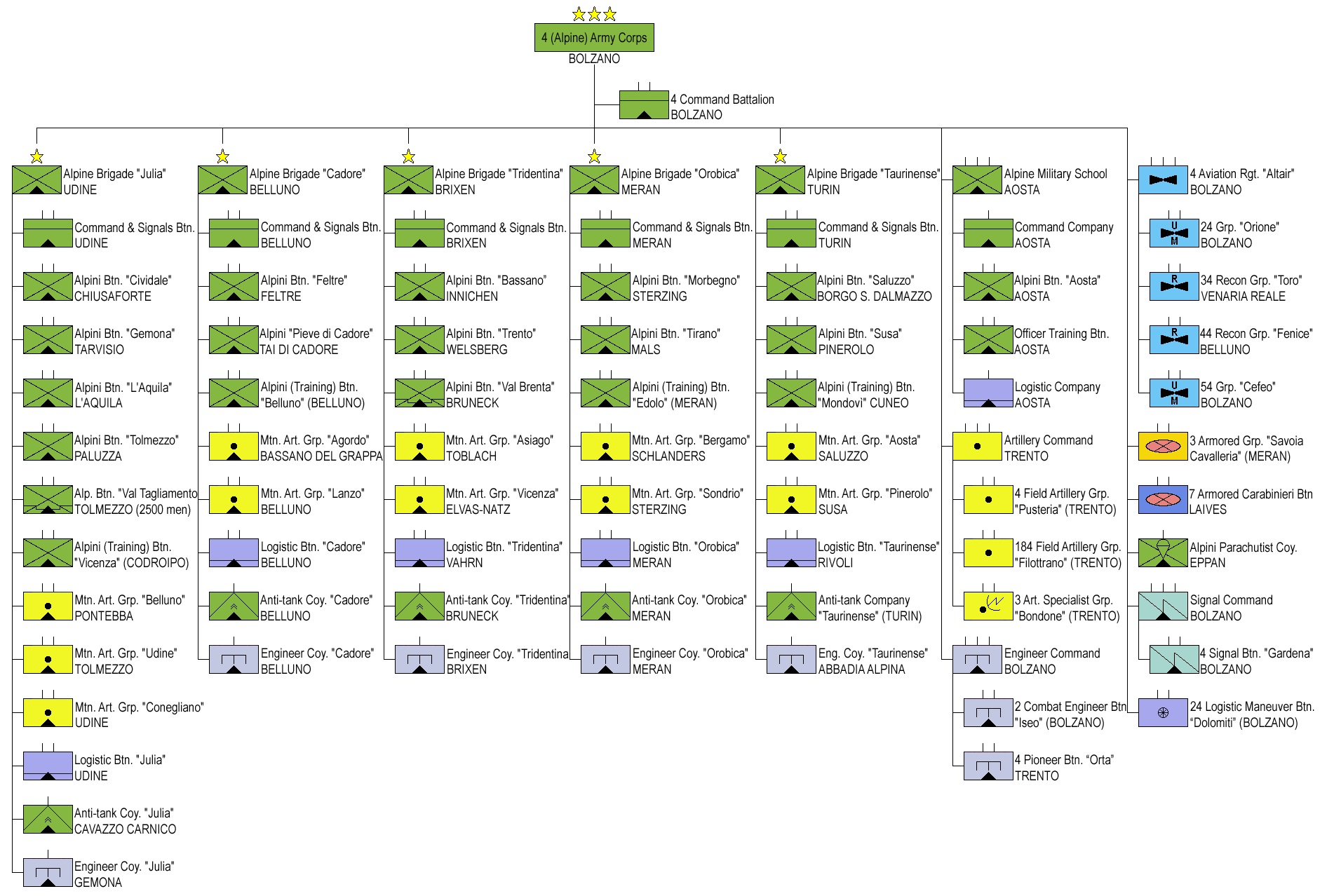 Italian Army - 4th Alpine Army Corps structure in 1989 before the drawdown of forces at the end of the Cold War began.